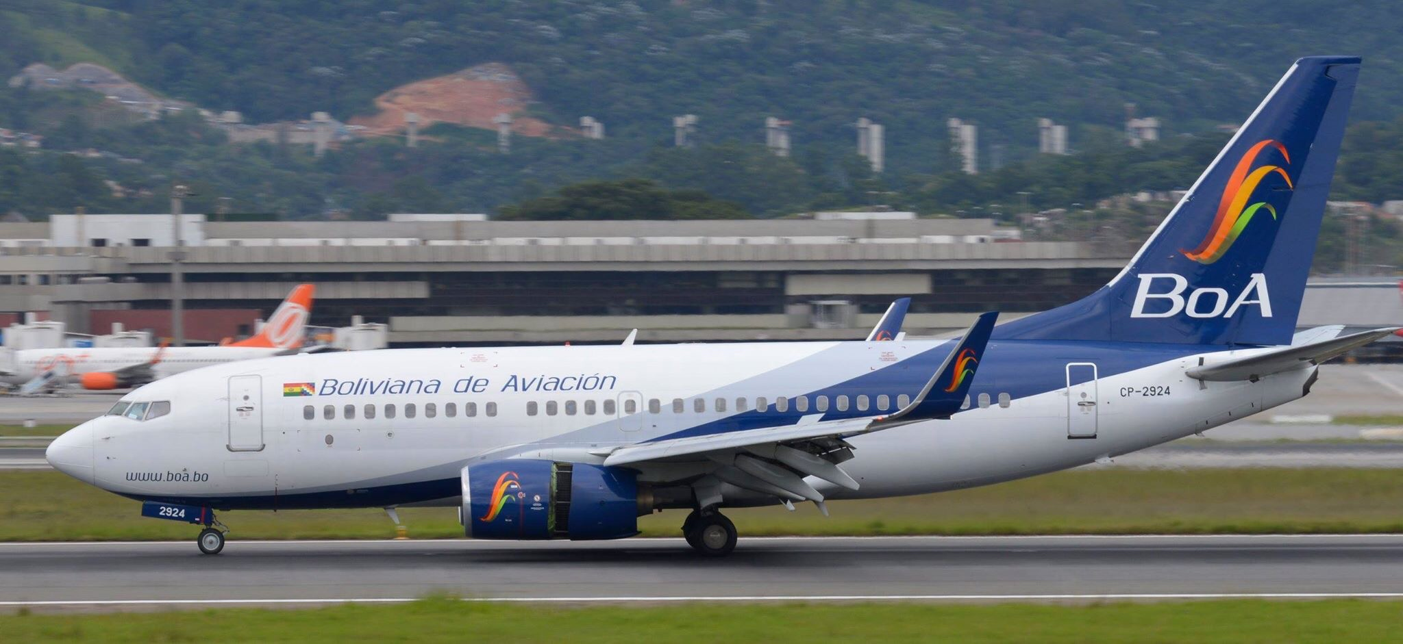 Boeing 737-700 (CP-2924) of Boliviana de Aviación aircraft at São Paulo-Guarulhos International Airport